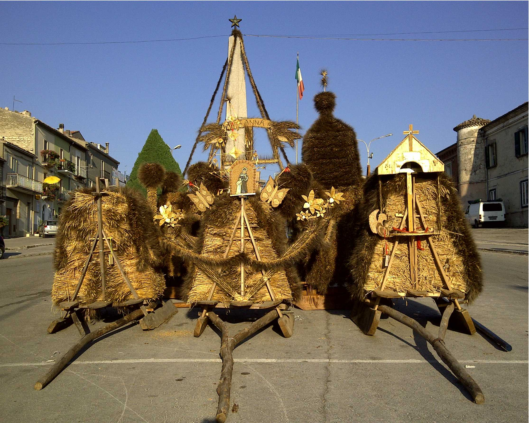 Traglie of Jelsi (Italy)